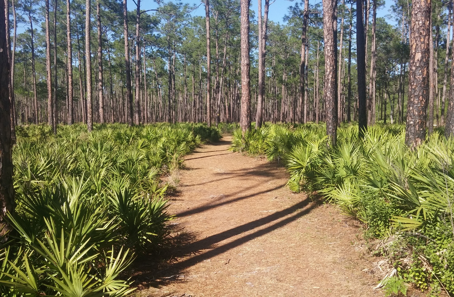 Olustee, battlefield